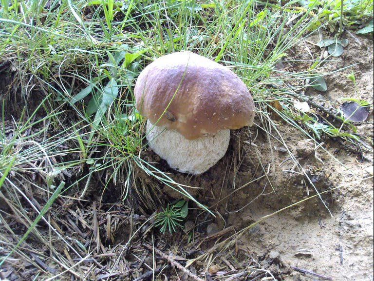 Boletus edulis